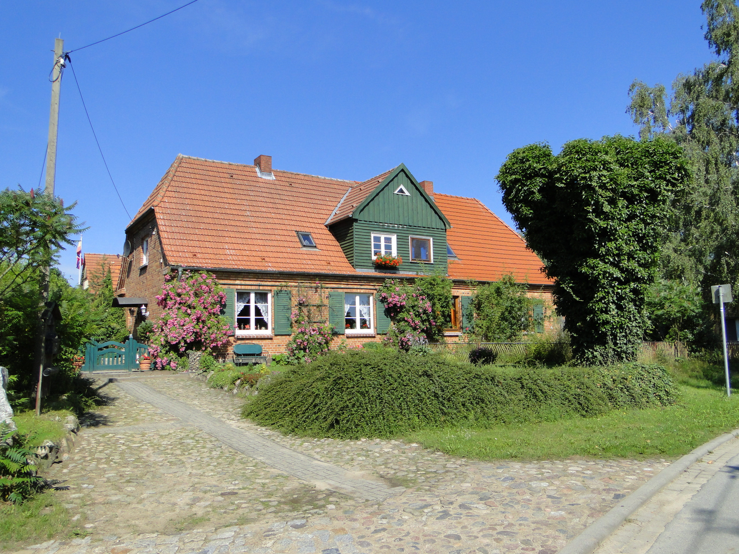 Building in Rum Kogel, district Güstrow, Mecklenburg-Vorpommern, Germany